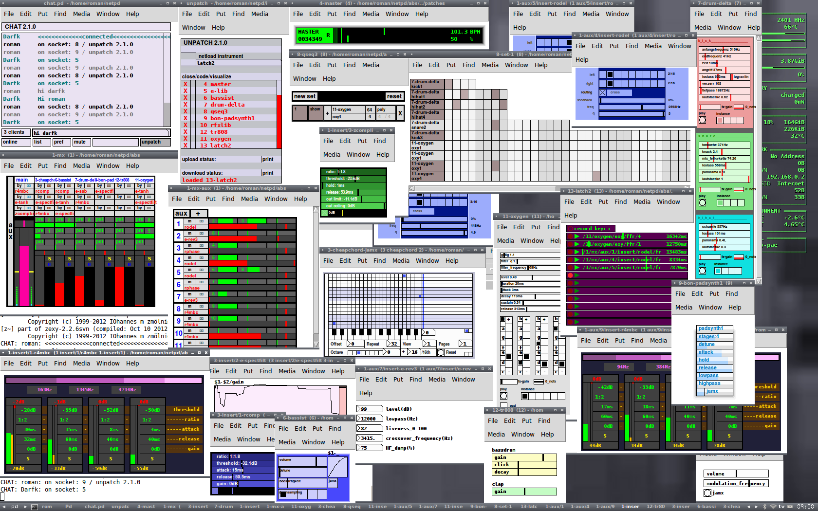 Screenshot taken at 2013-03-26 of a netpd session running with Pd 0.44.2 on Ubuntu 12.04.1 (GNU/Linux).